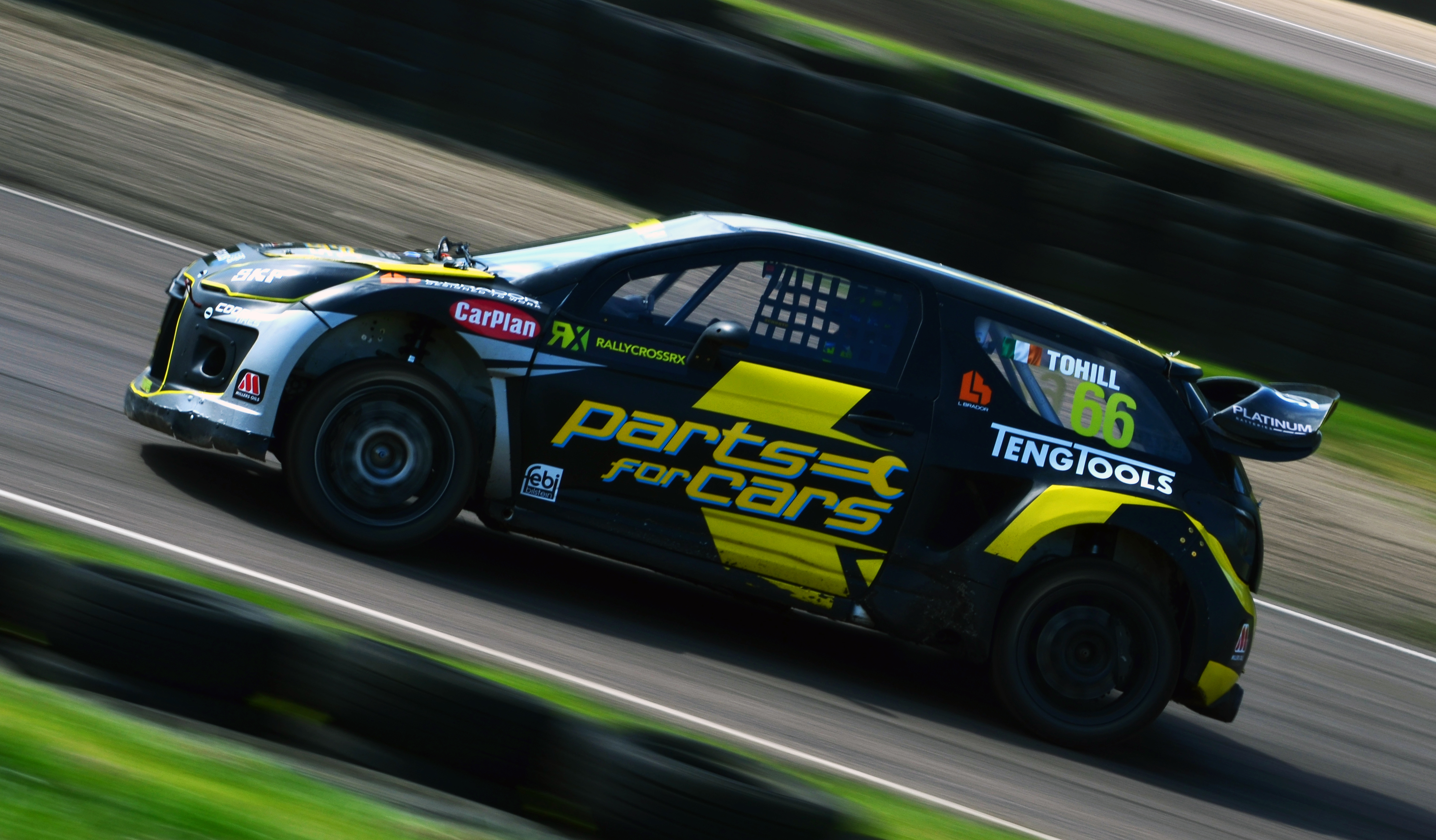 Derek Tohill at Lydden Hill during round 2 of the 2014 FIA World Rallycross Championship. Citroën DS3 Supercar.